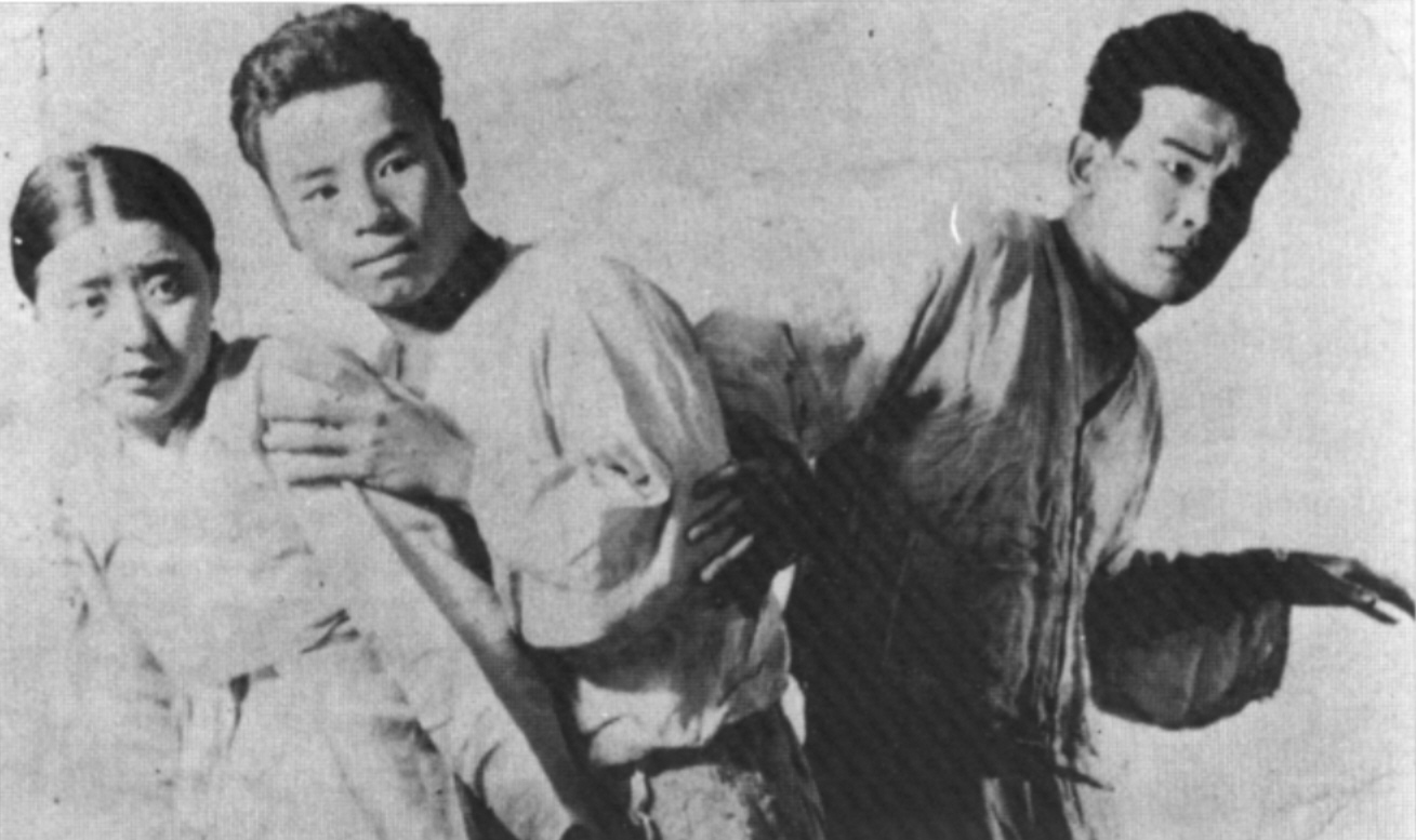 Description: Promotional poster for the Na Woon-gyu (1902 – 1937) film, Kanggeonneo maeul (1935). The copyright of this poster once belonged to Na Woon-gyu who was the director, actor, screenwriter, and producer of the film and owner of Na Woon-gyu production. However, 50 years after his death, the poster is now public domain in South Korea and other countries to which the similar copyright would apply. Source Derived from a digital capture (photo/scan) of the image (creator of this digital version is irrelevant as the copyright in all equivalent images is still held by the same party). Copyright held by the film company or the artist. Claimed as fair use regardless.